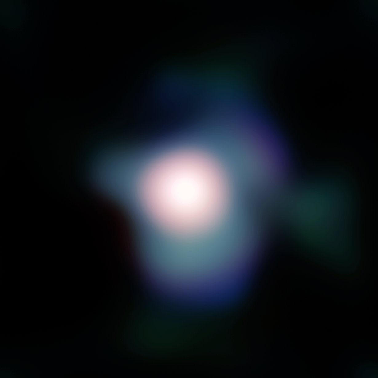 Image of the supergiant star Betelgeuse obtained with the NACO adaptive optics instrument on ESO’s Very Large Telescope. The use of NACO combined with a so-called “lucky imaging” technique, allowed the astronomers to obtai. The image is based on data obtained in the near-infrared, through different filters. The field of view is about half an arcsecond wide, North is up, East is left.